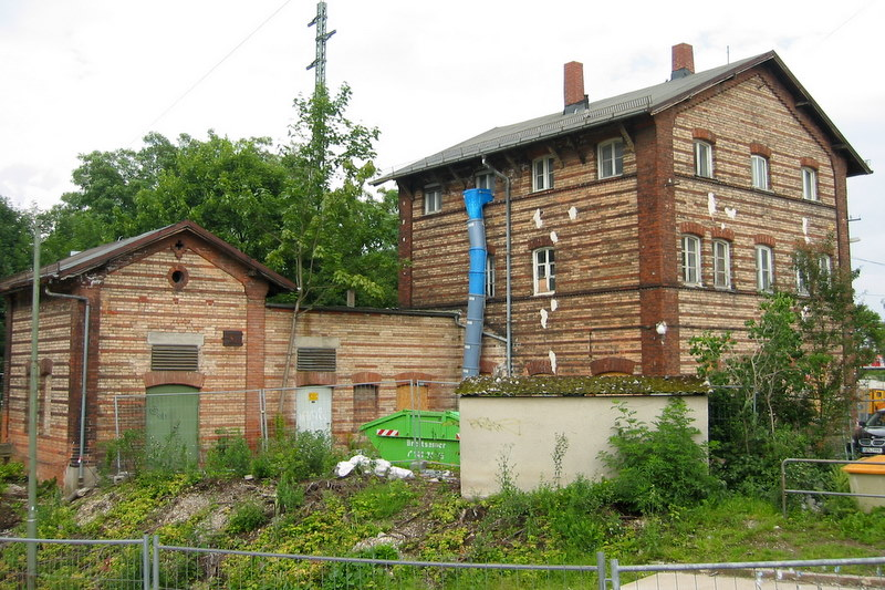 Old train station of Pasing